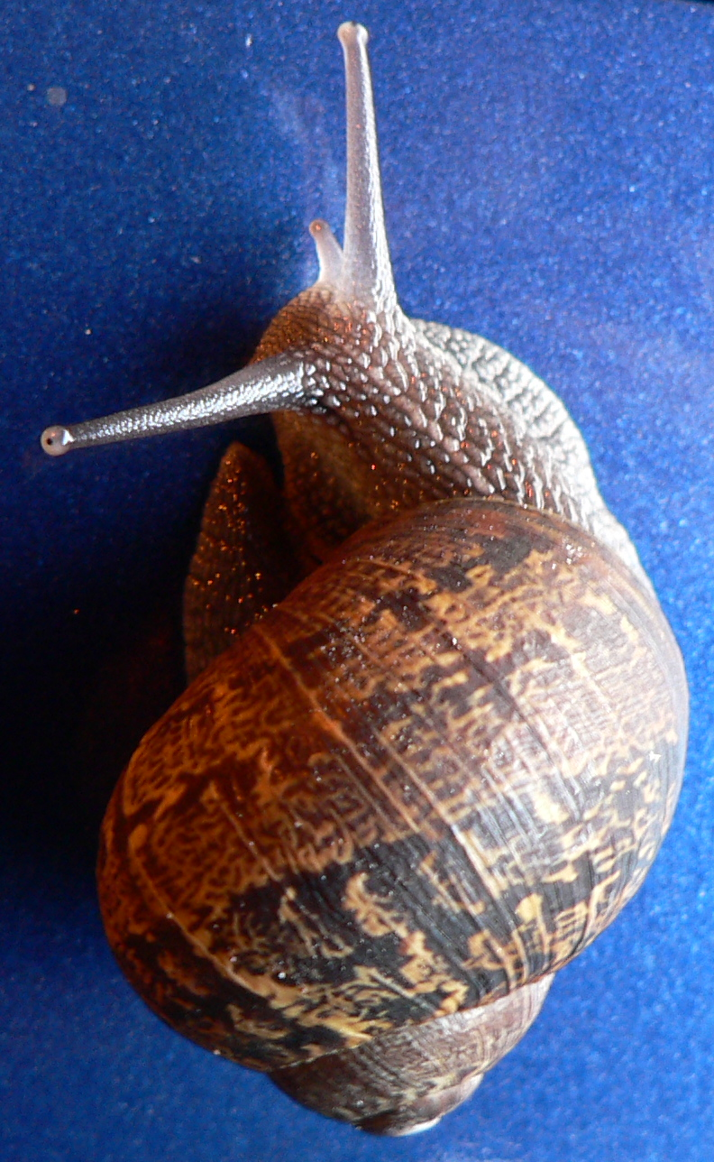 A snail on a car in Santa Cruz, California